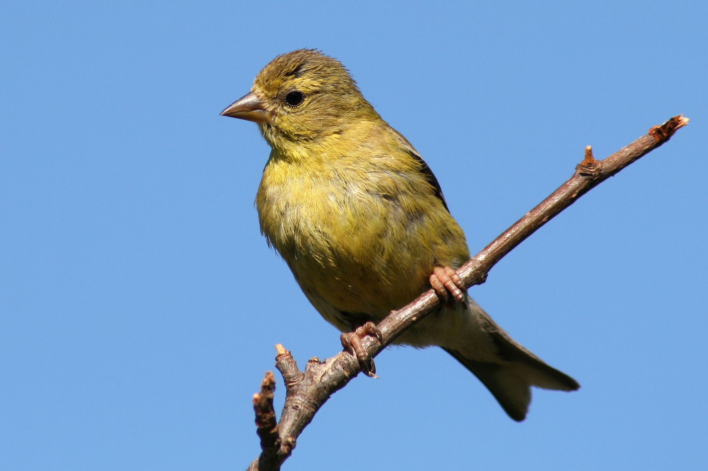 American Goldfinch female, Ontario, Canada.